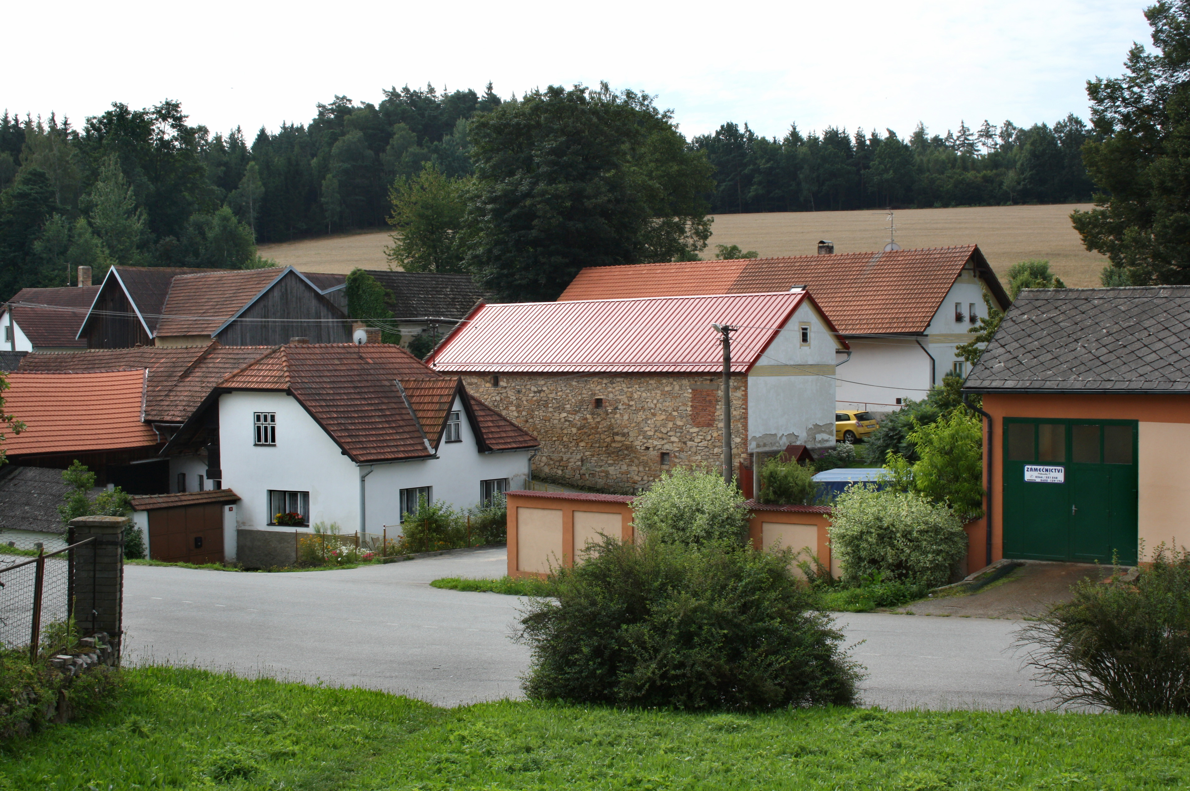 South part of Krasíkovice village, Czech Republic